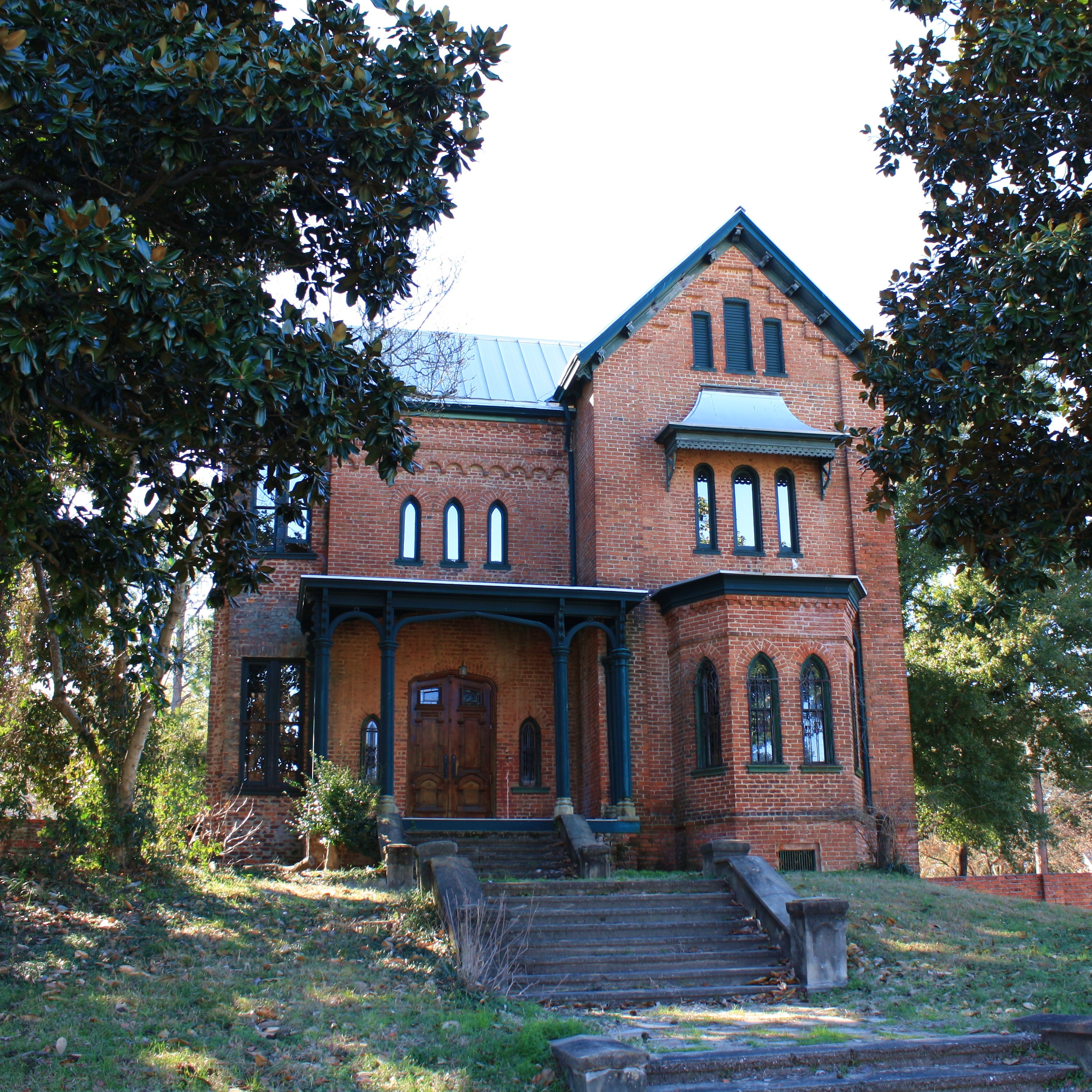 Weaver Castle in Selma, Alabama.